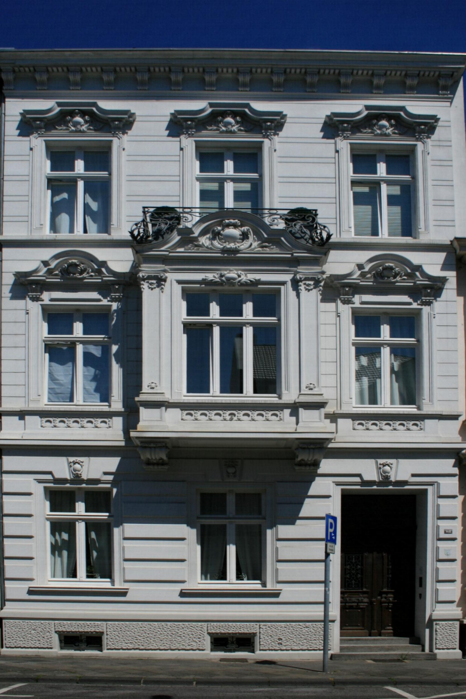 Cultural heritage monument No. H 072 in Mönchengladbach